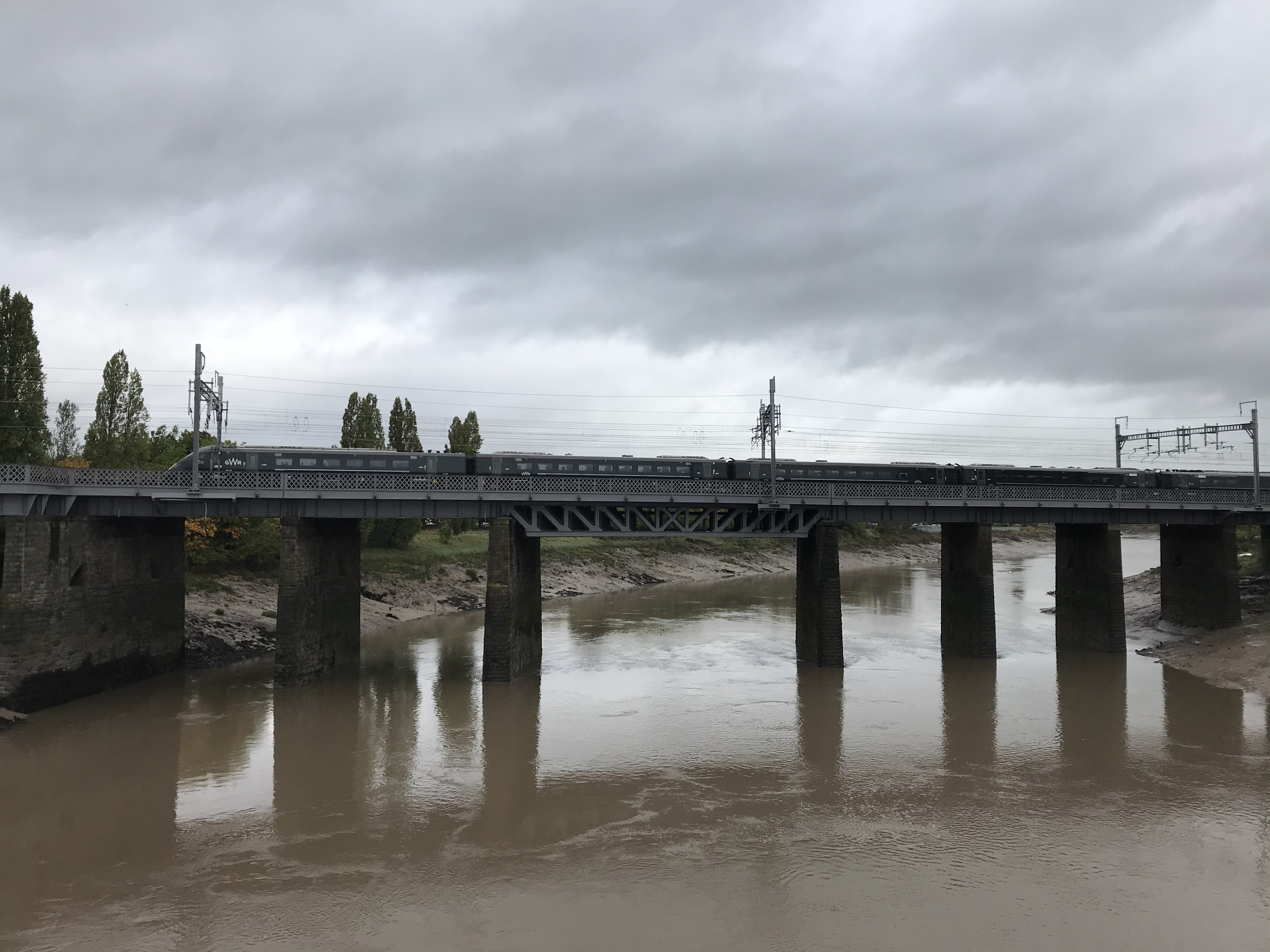 A Great Western Railway 10 car service travelling from London Paddington to Swansea is seen over the railway bridge in Newport